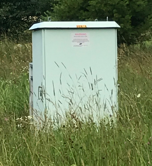 An SLC cabinet owned by TDS Telecom.